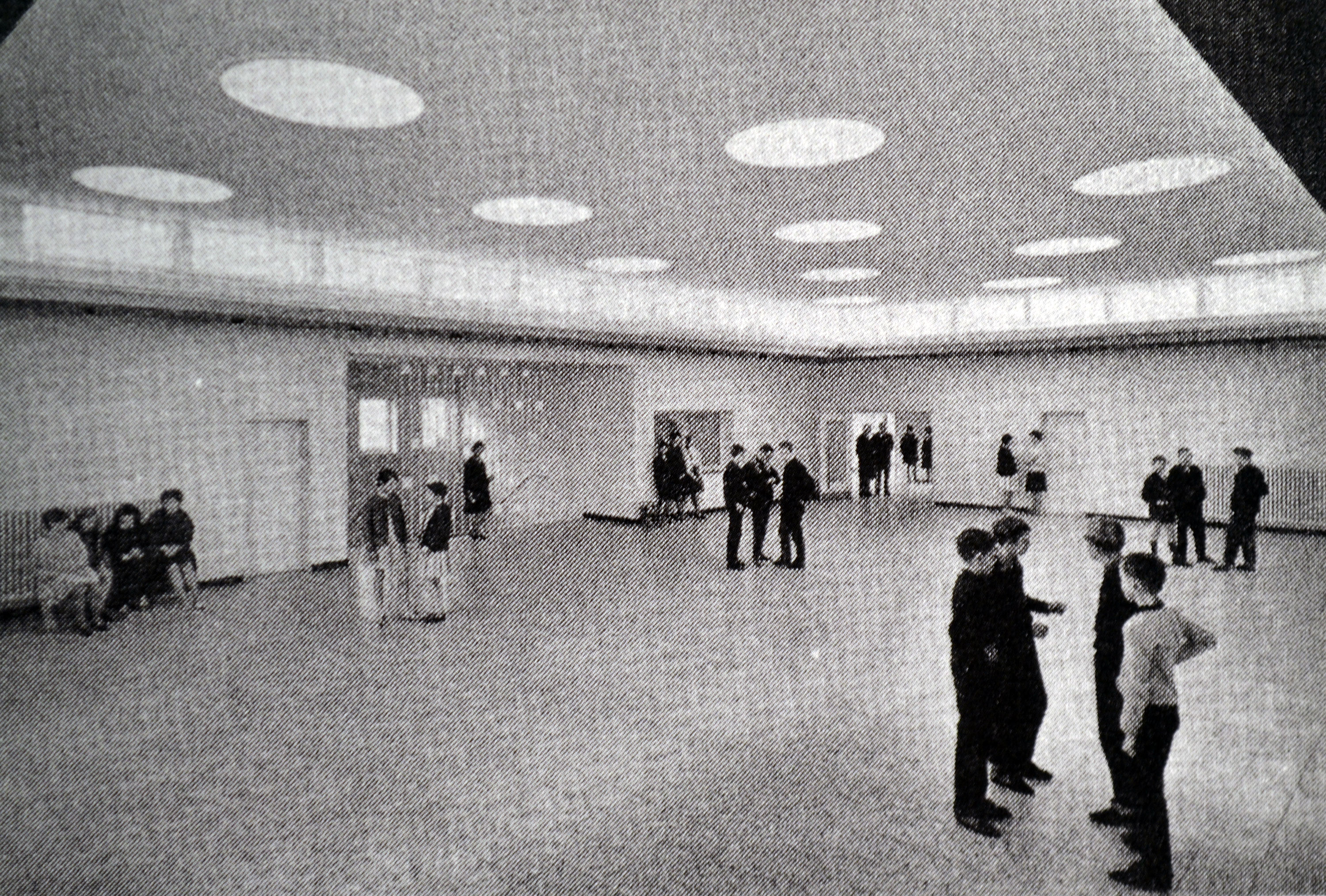 This image shows the break hall of the Findorff-Realschule Bremervörde middle of the 19th Century after the construction.